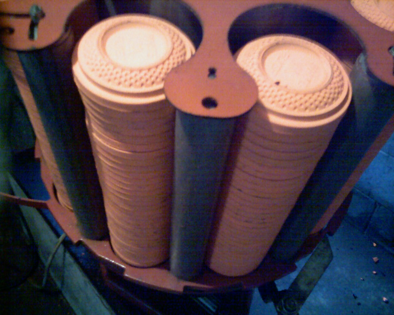 Clay Pigeons loaded into an automatic thrower.